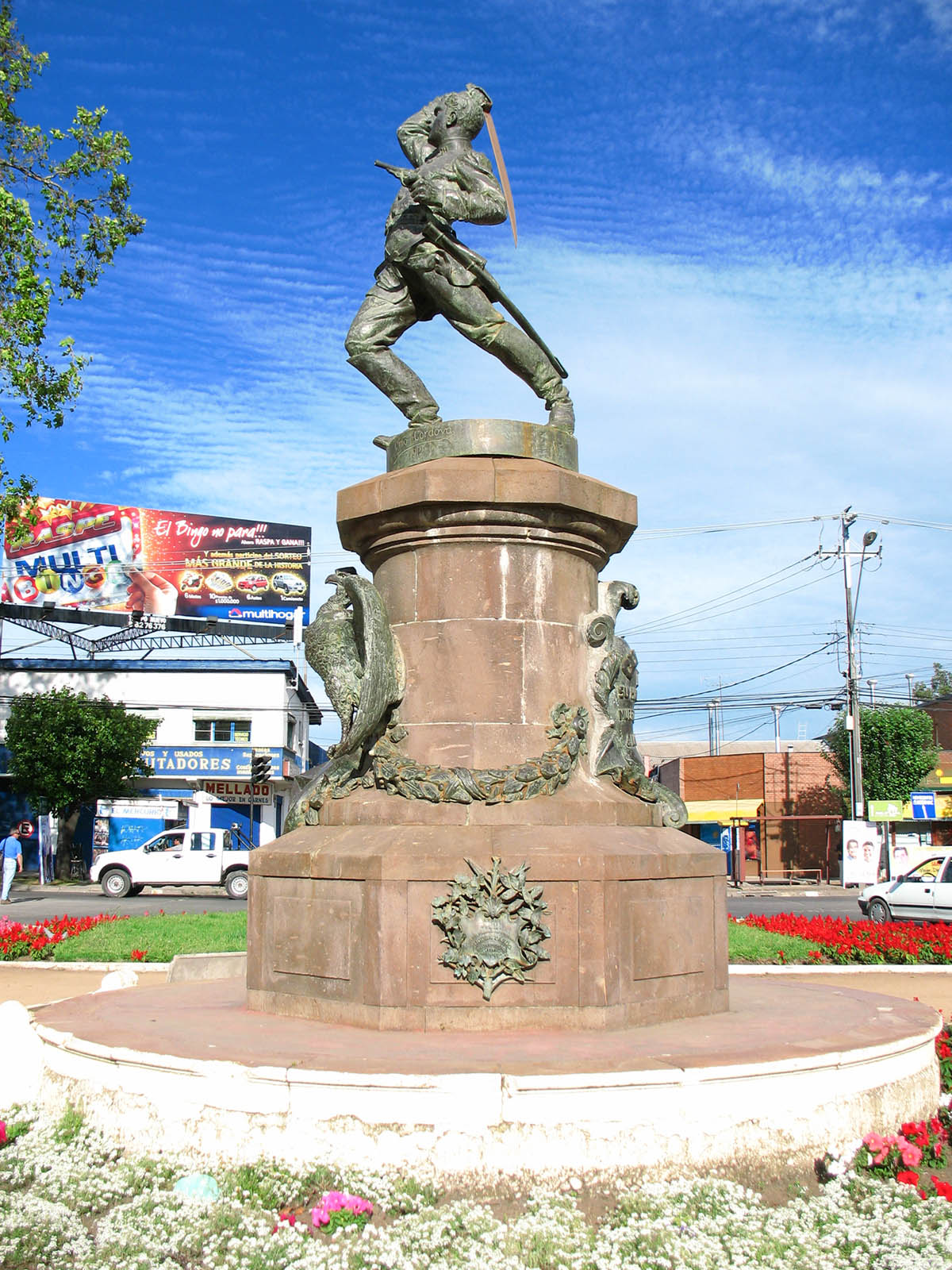 Statue of the Chilean hero Luis Cruz Martínez in Curicó by the sculptor Guillermo Córdova, bronze, 1911